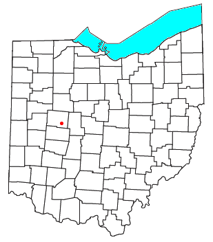 Locator map of the unincorporated community of Pickrelltown in Logan County, Ohio, United States.